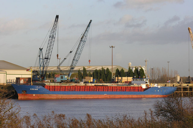 The Cedar at Howdendyke Jetties (lower), Howdendyke, East Riding of Yorkshire, England. IMO Number: 8100624 MMSI Number: 305149000 Callsign: V2PP9 Length: 82 m Beam: 11 m